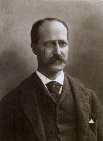 Photograph of Henry Rowland, the American physicist, published in 1902